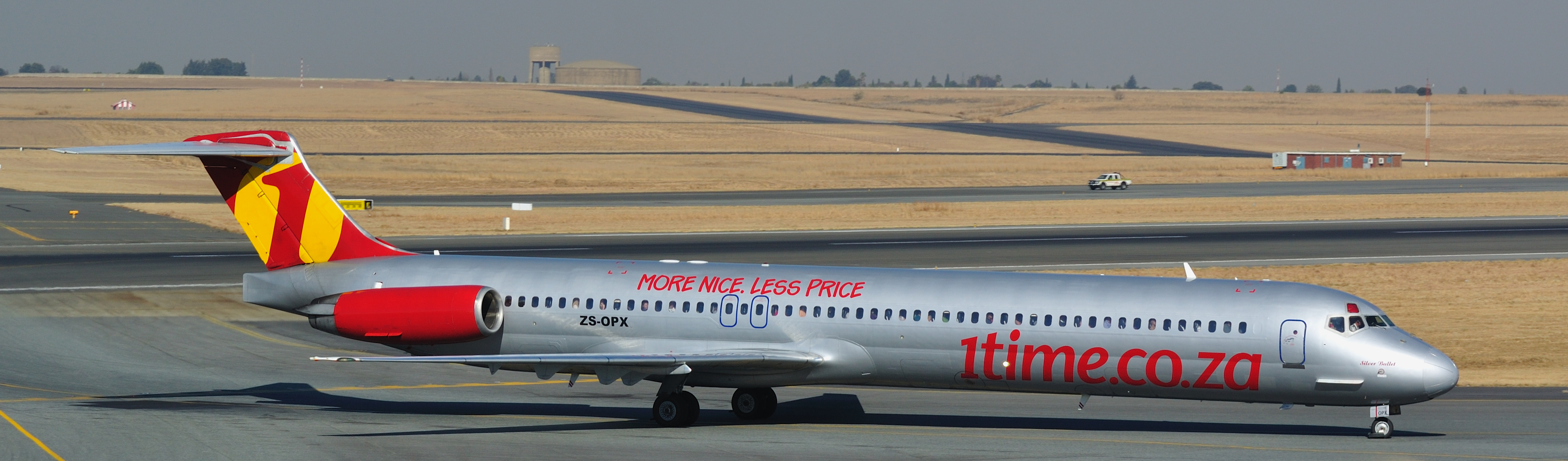 1time Airline McDonnell Douglas MD-83 (ZS-OPX) South Africa, spotting at OR Tambo International Airport